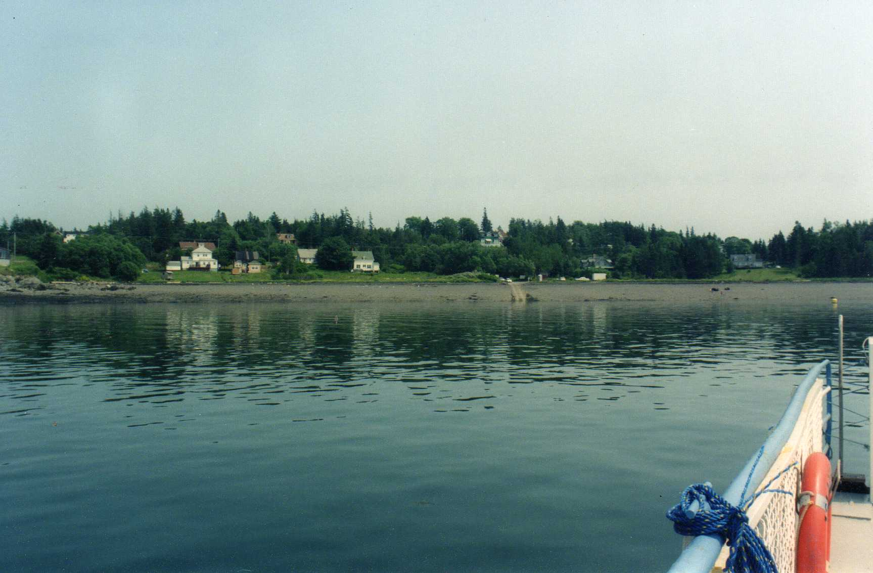 Heading for the landing beach. Campobello Island is a Canadian island located at the entrance to Passamaquoddy Bay, adjacent to the entrance to Cobscook Bay, and within the Bay of Fundy. The island is part of Charlotte County, New Brunswick but is actually physically connected by the Franklin Delano Roosevelt Bridge with Lubec, Maine - the easternmost tip of the continental United States. Measuring 14 kilometres (8.7 mi) long and about 5 kilometres (3.1 mi) wide, it has an area of 39.6 square kilometres (15.3 sq mi). In addition to the Lubec bridge, the island is accessible in the summer months by an automobile ferry from nearby Deer Island and from there via another ferry to mainland New Brunswick. The island's permanent population in 2001 was 1,195. The majority of residents are employed in the fishing/aquaculture or tourism industries. The island was originally settled by the Passamaquoddy Nation, who called it Ebaghuit.